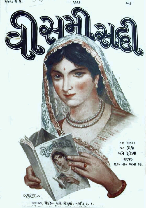 Cover of 1916 Gujarati magazine, Visami Sadi. Cover Art by M.V. Dhurandhar. Edited by Hajimahmad Allarakha.